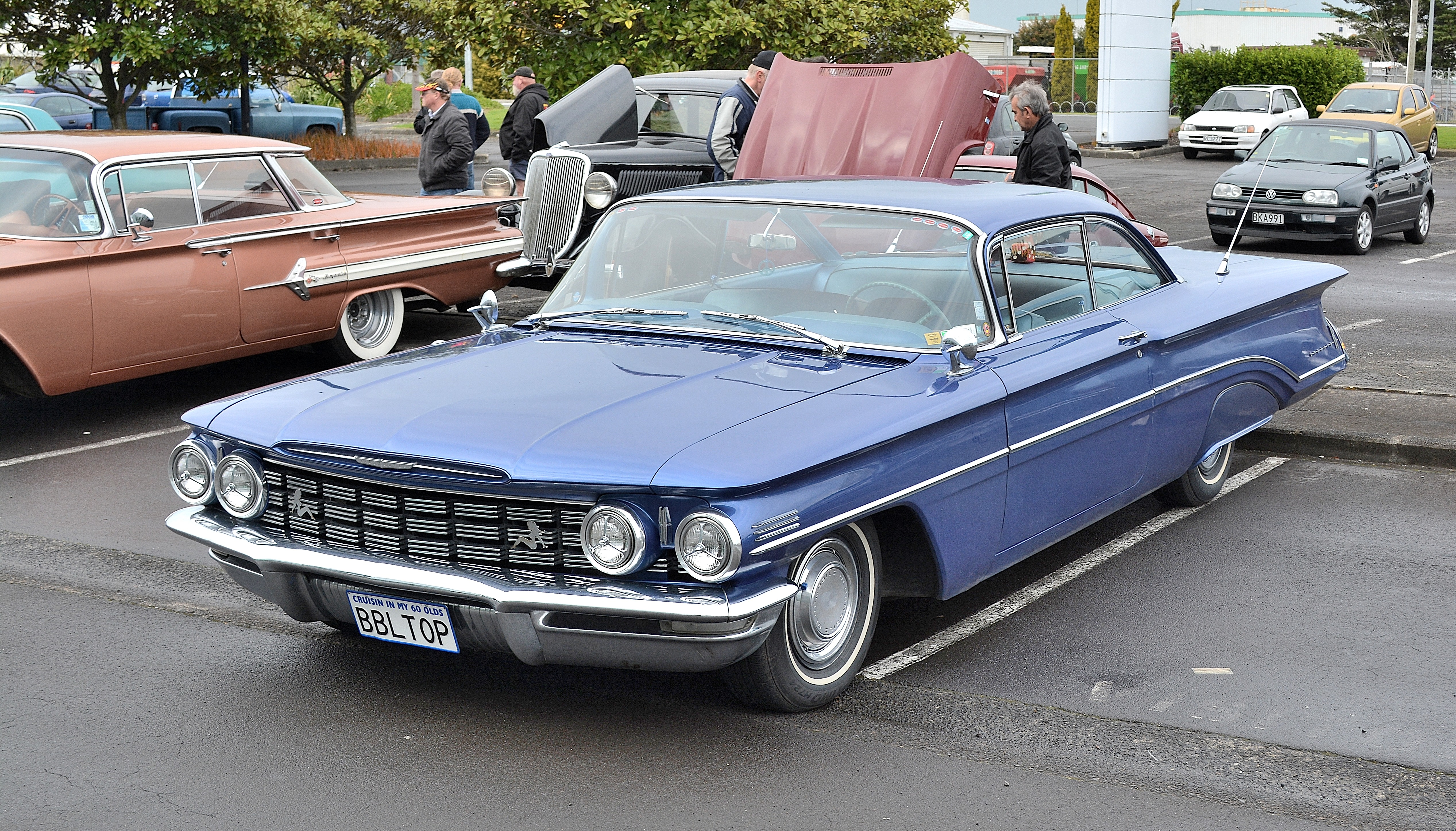 Manakua,South Auckland.New Zealand